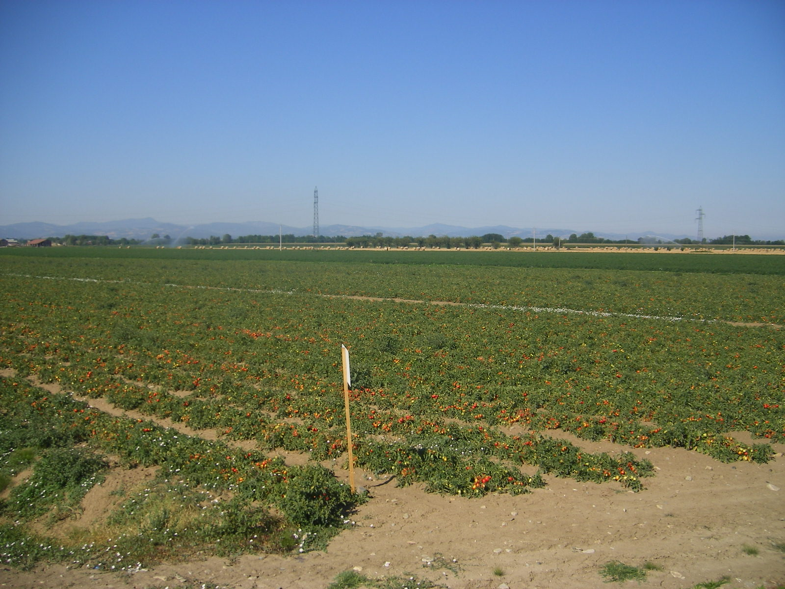 Tomato plantation between Cadeo and Pontenure (Cadeo municipality) - Province of Piacenza - Italy